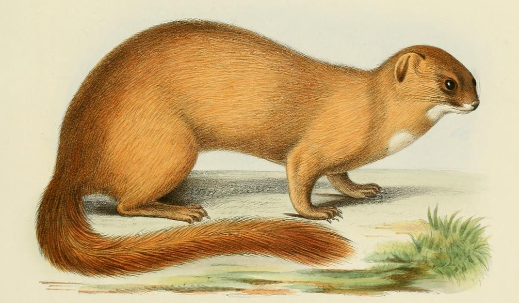 Burmese kolonok (M. s. moupinensis)